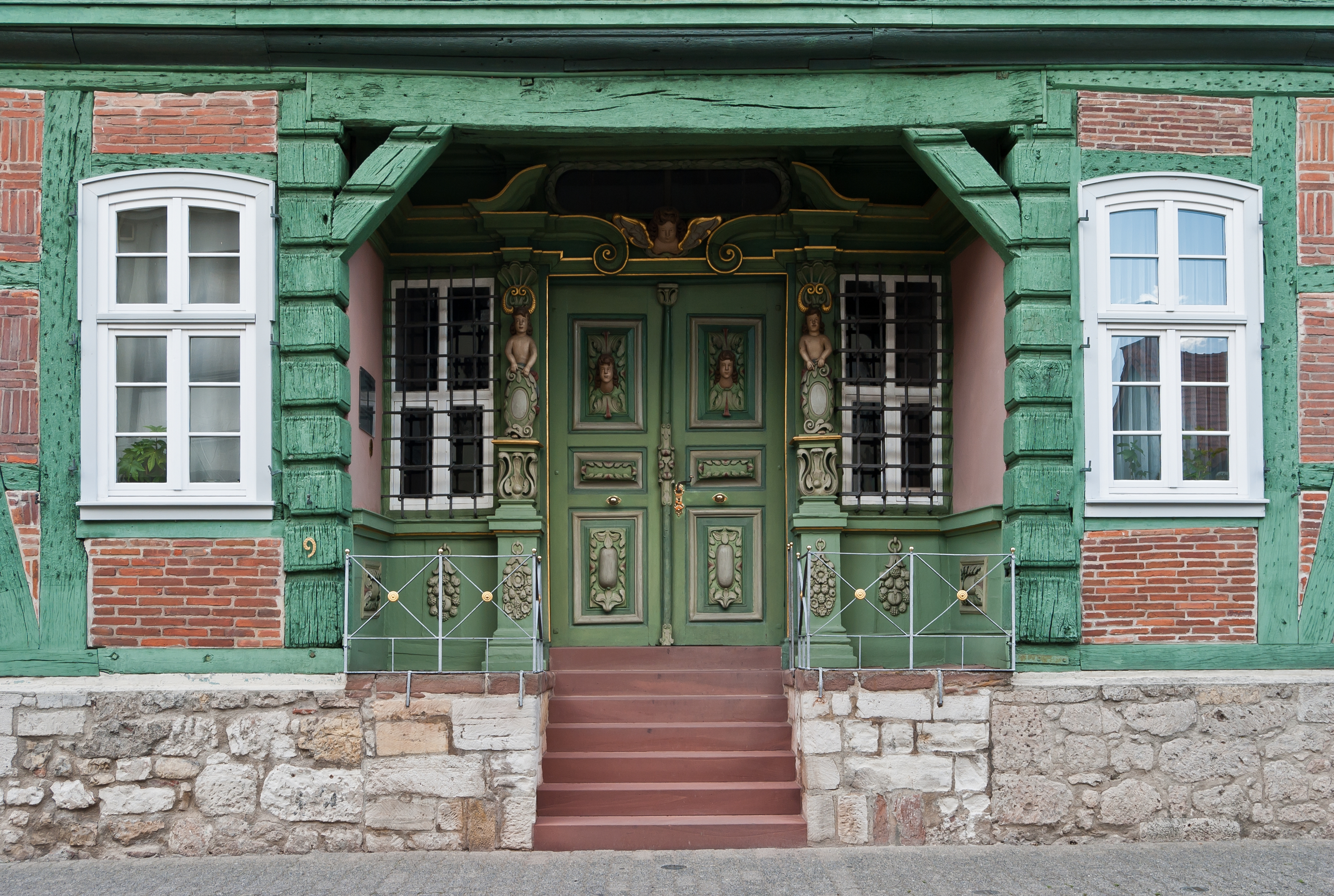 Korbach (Hesse, Germany) – Hartwig House – baroque portal (1720) by Josias Wolrat Brützel